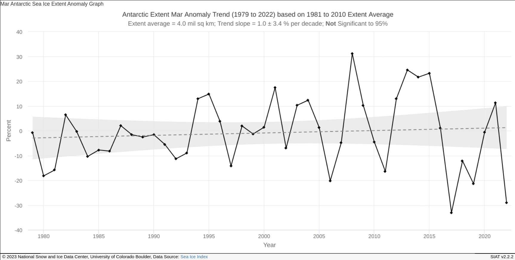 Southern Hemisphere (Antarctic) Sea Ice Extent Anomalies: Ice extent anomalies are plotted as a time series of percent differences between the total extent for the month in question, and the mean for that month, where the mean is based on the January 1979 - December 2000 portion of the data set. The trend, in percent change per decade, is obtained using least squares regression, and a 95% confidence interval for the resulting slope is given.